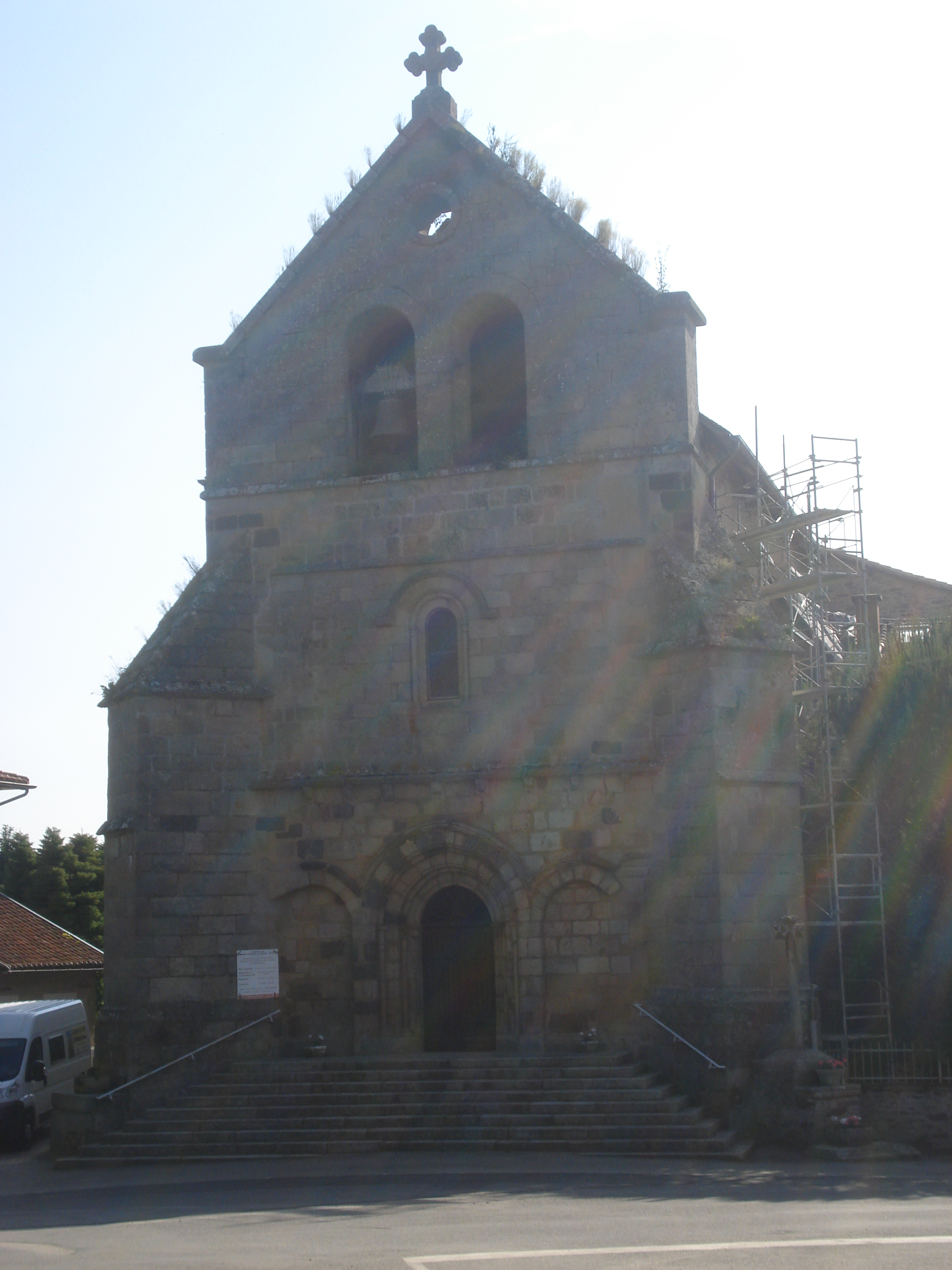 Saint-Martin-le-Vieux_(Haute-Vienne,_Fr),_church